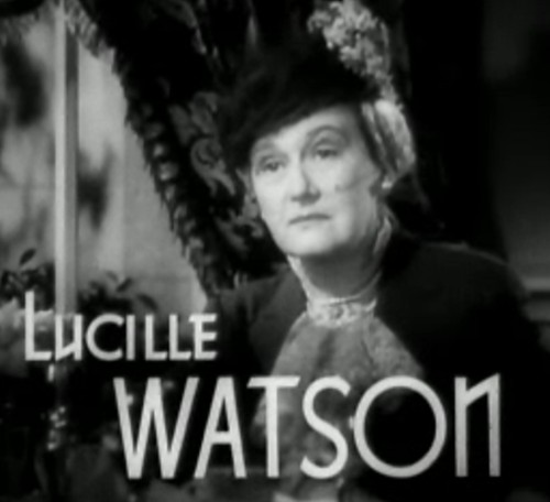 Cropped screenshot of Lucile Watson from the trailer for the film Waterloo Bridge